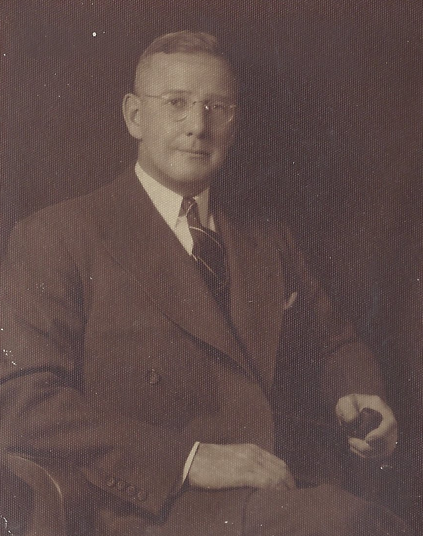 Gulf Oil Executive Willard F. Jones photograph in the 1920s